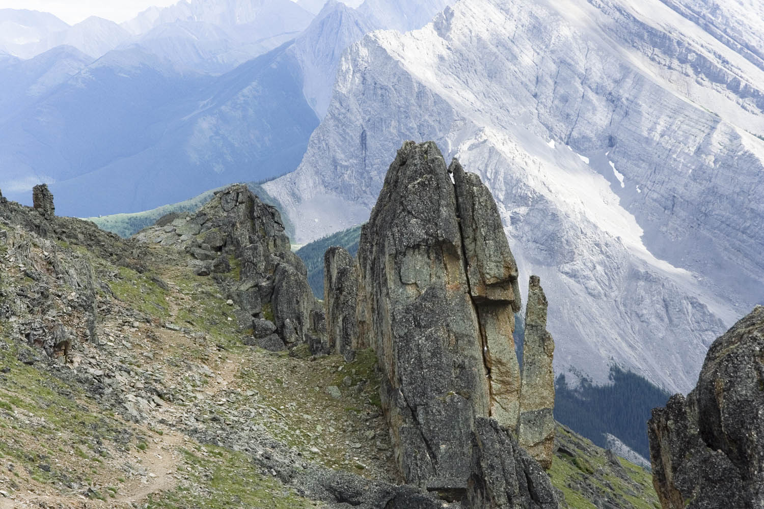 "Cadomin Formation outcrops along "Mt Allan Centennial Ridge Trail"